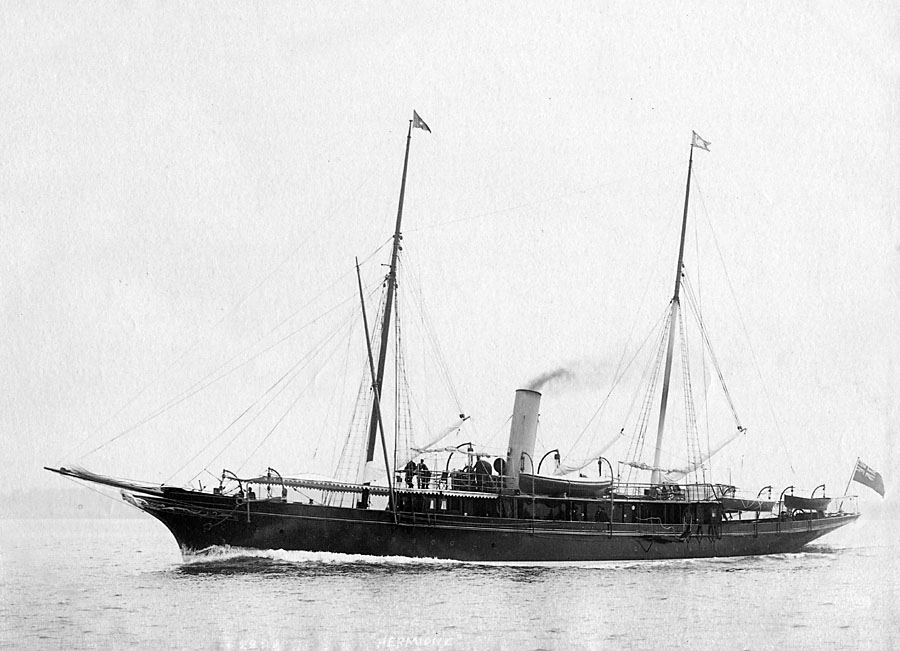 Henry Lillie Pierce's yacht Hermione - later the USS Hawk